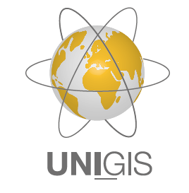 The official logo of the UNIGIS International Association, a network of universities worldwide that deliver distance-learning education in GIS. Logo version 2016